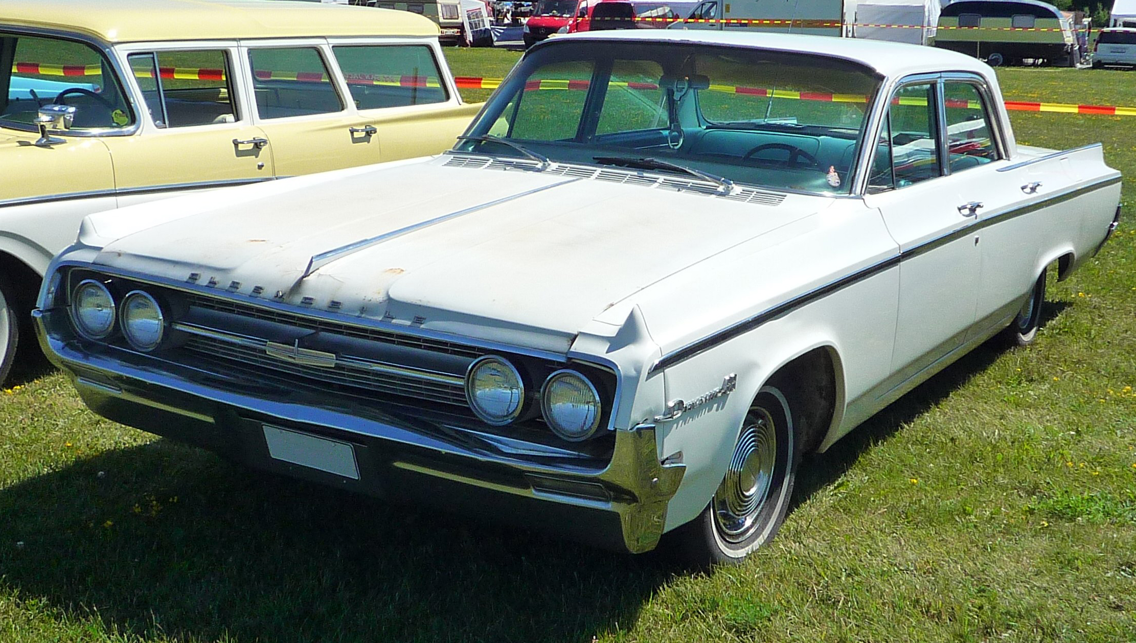 White 1964 Oldsmobile Dynamic 88 four-door sedan, 330 hp "Rocket" 394 ci (6.5 L) V8.